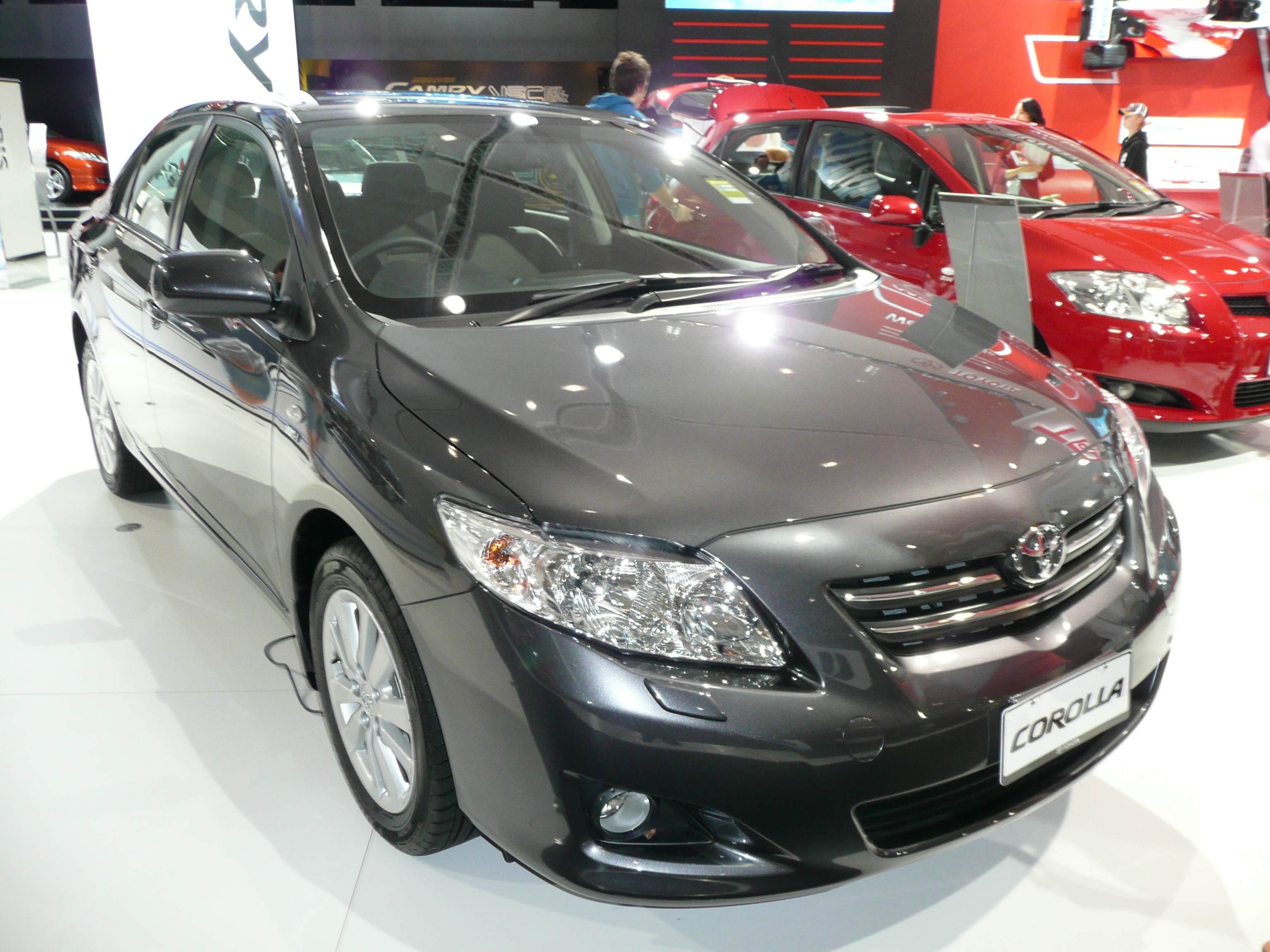 2007 Toyota Corolla (ZRE152R) Ultima sedan. Photographed at the 2007 Australian International Motor Show, Sydney, New South Wales, Australia.